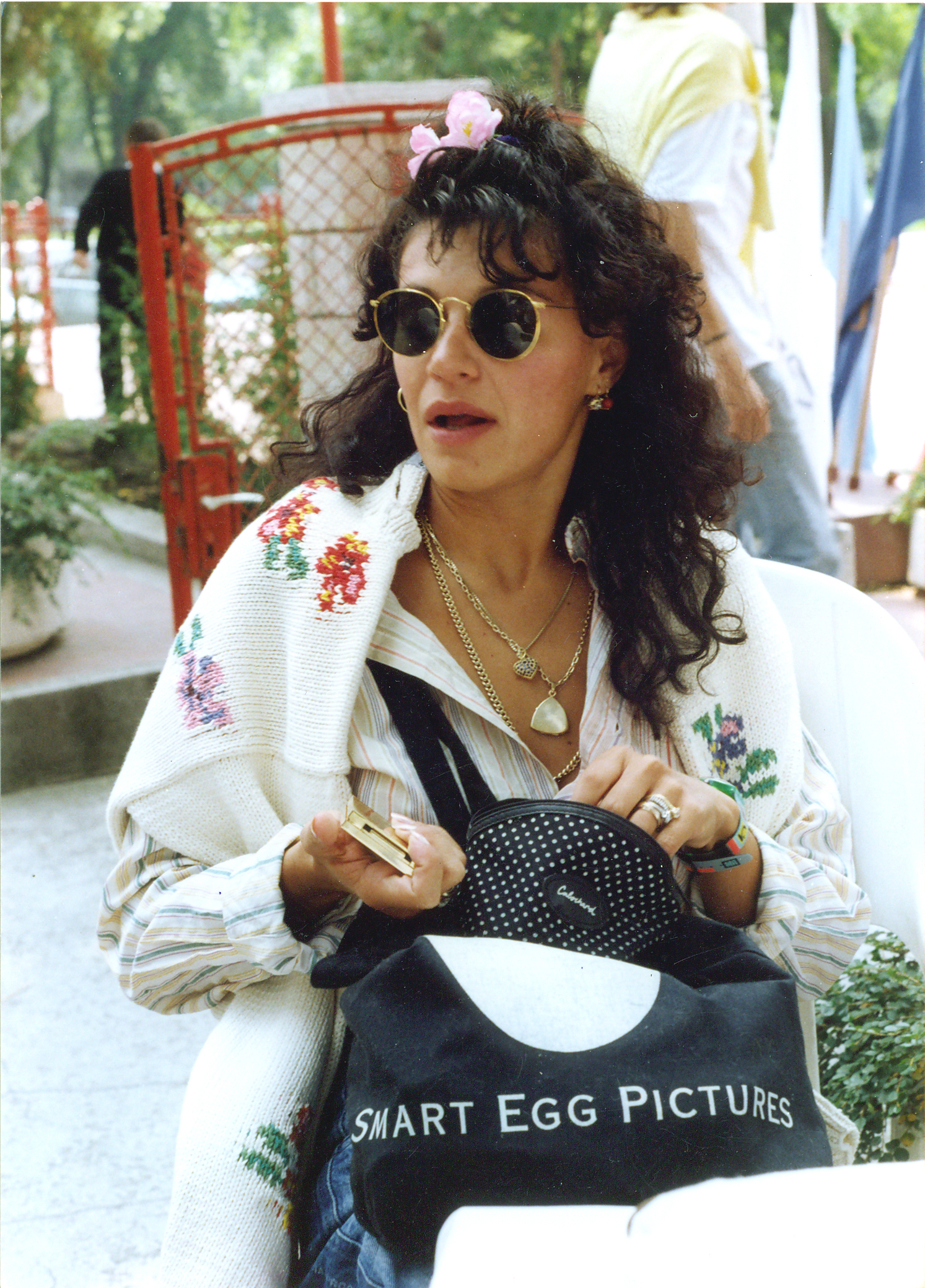 Maja Sabljić, Serbian actress, Film festival in Niš (Serbia), late 90s